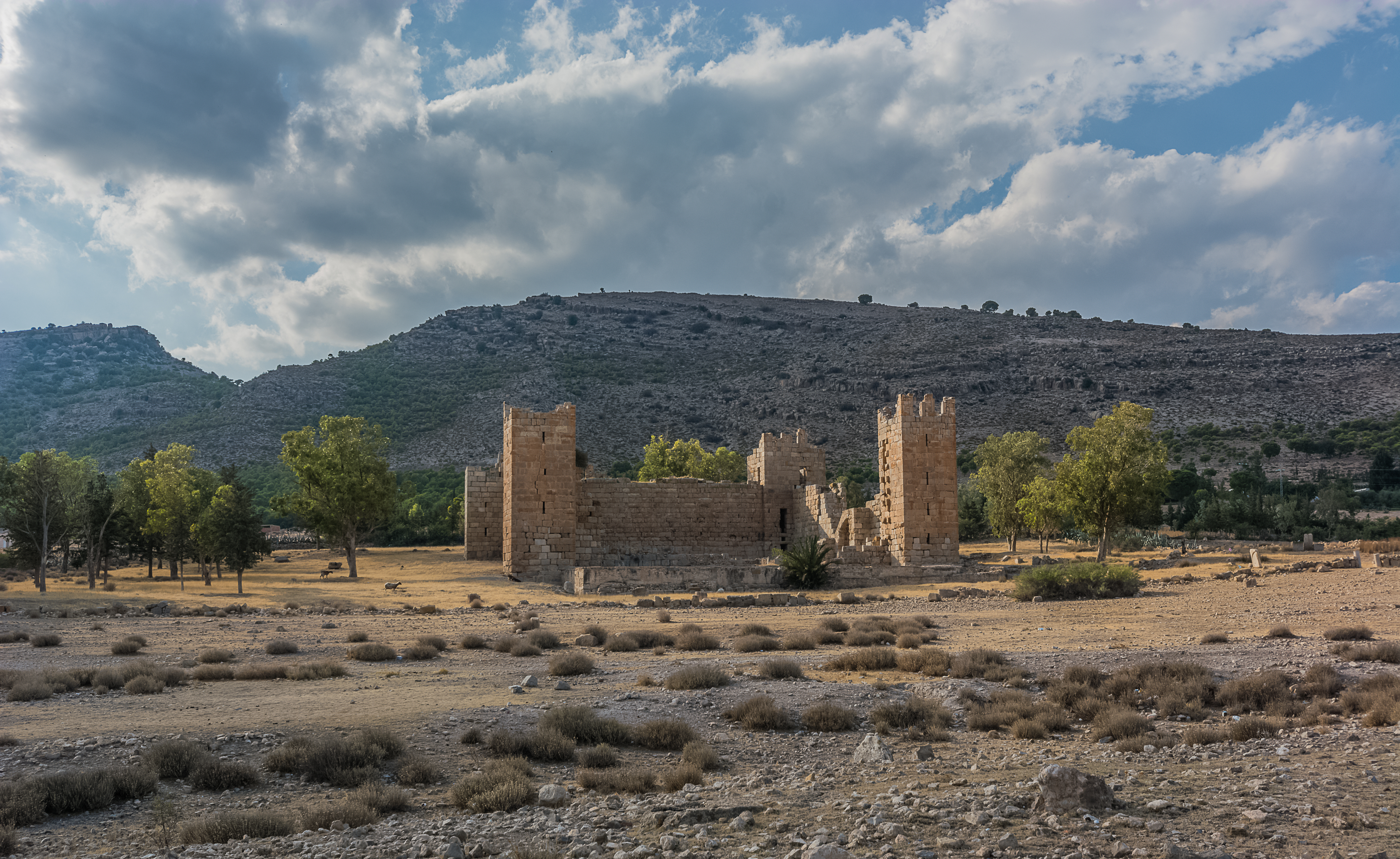 Outside view of the byzantine forteress of Ksar Lemsa